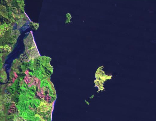 LANDSAT 2005 imagery (vegetation analysis) of Slipper Island (Whakahau), New Zealand, hosted by ESRI